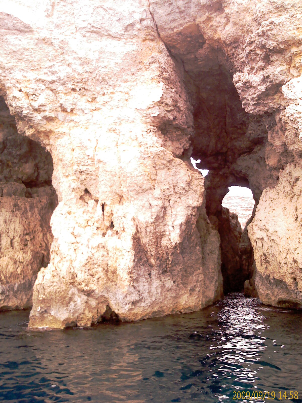 Caves of Cominotto (NOT Comino!), Malta